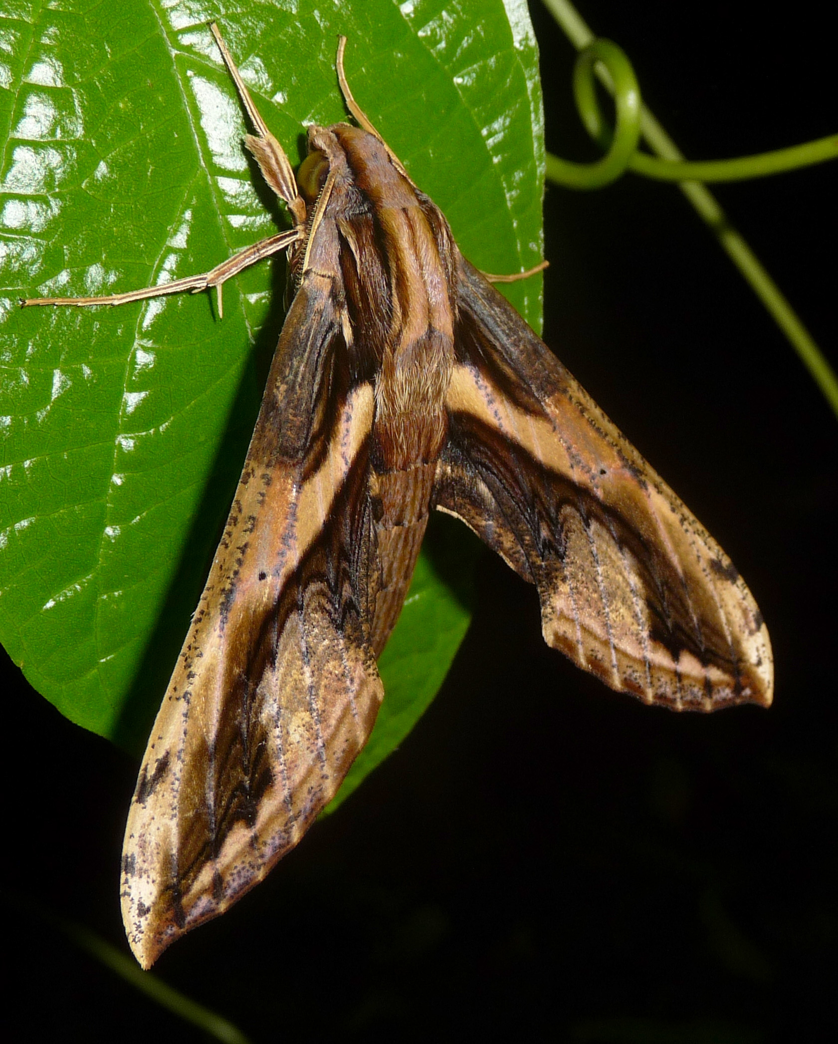 Xylophanes ceratomioides. Sphingidae. Sphingidae. Macroglossinae